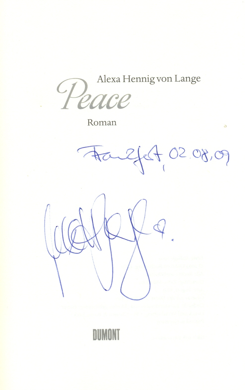 Autograph from Alexa Hennig von Lange (German Writer)